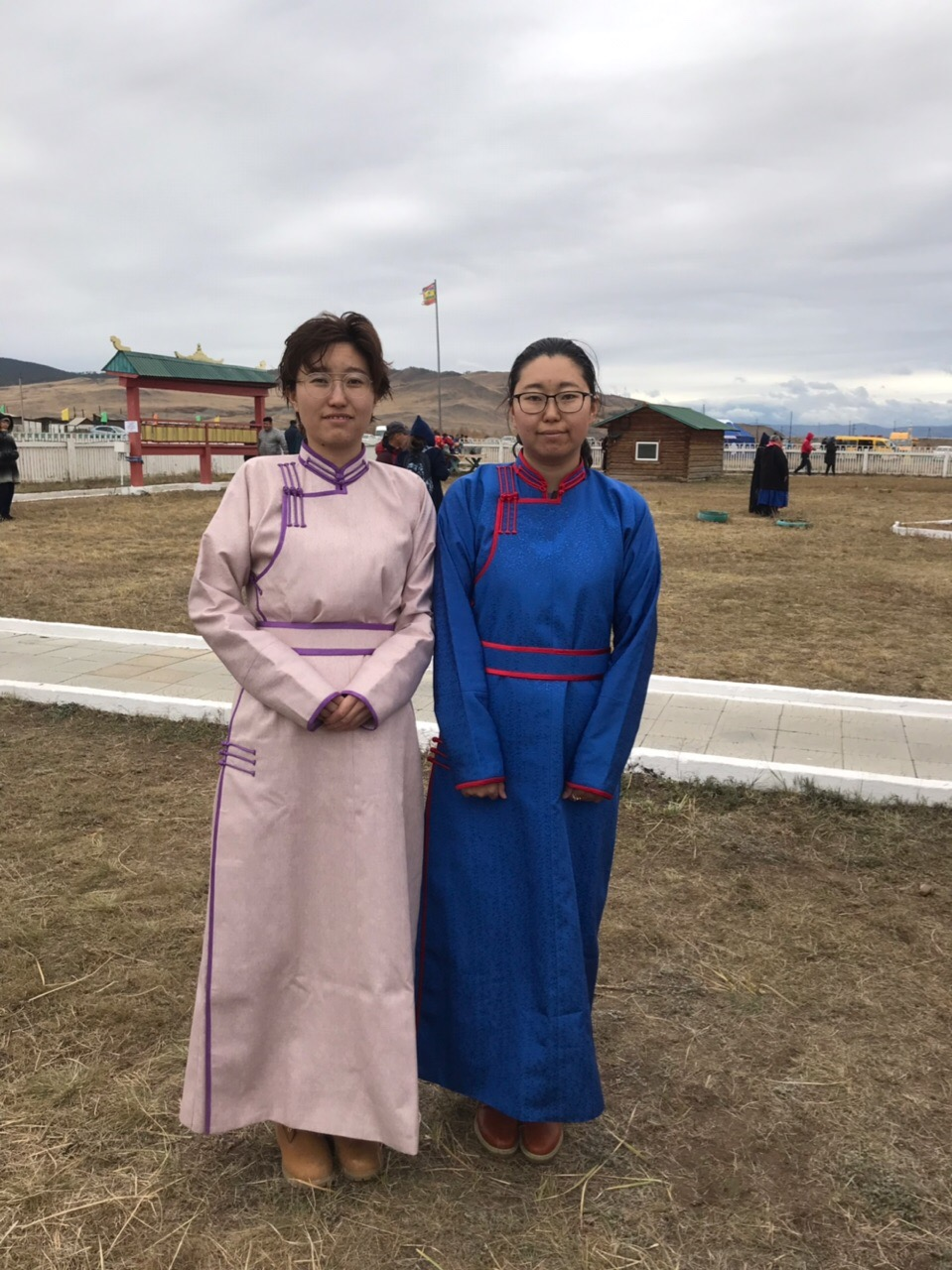 Chahars in Buryatia